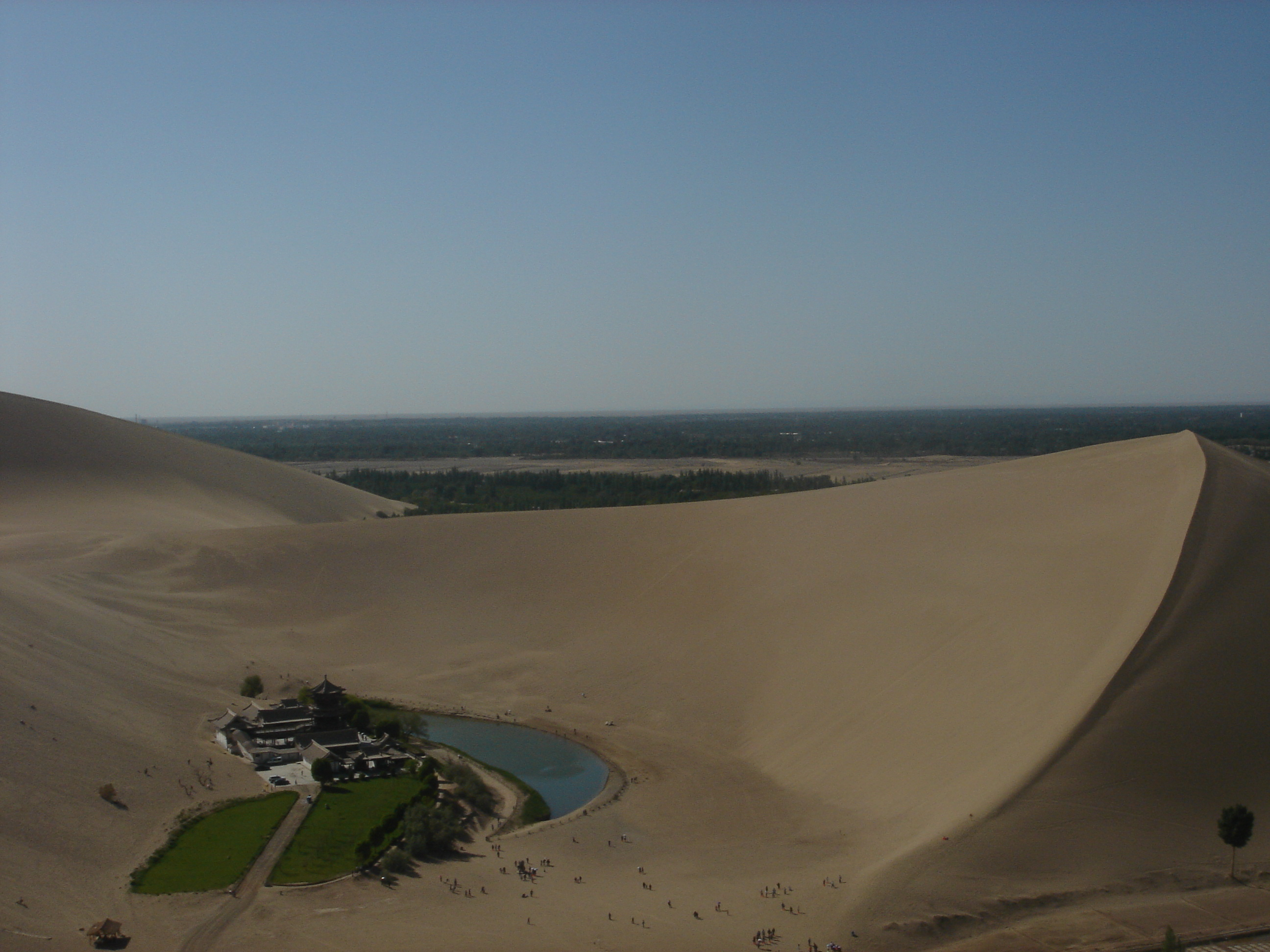 It taken in Mingsha Dunes, According to this picture is in Crescent Spring.